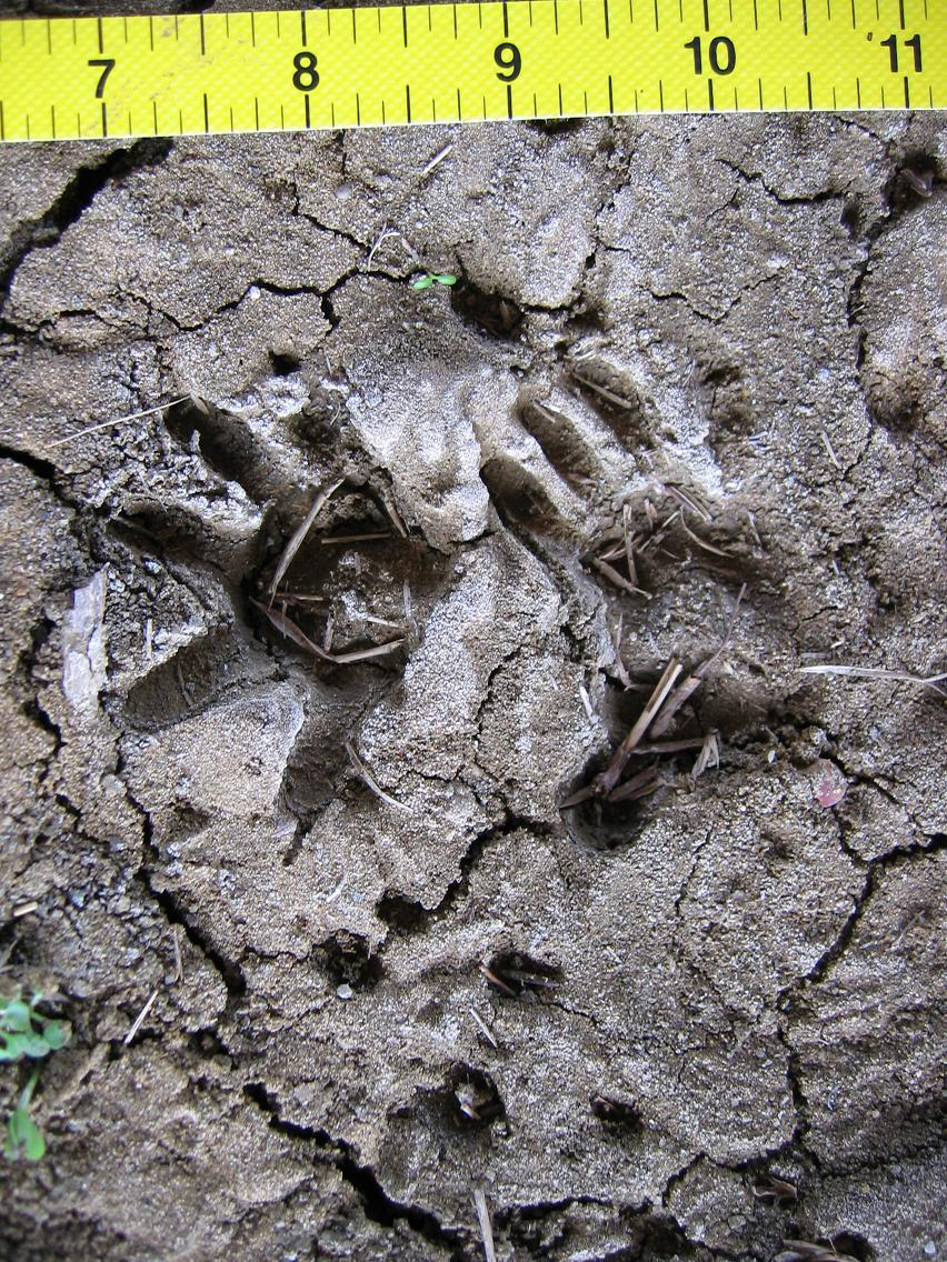 Opossum tracks (photo center) and vole tracks (bottom of photo) in mud. Photograph taken by Michael Lensi, 2003.